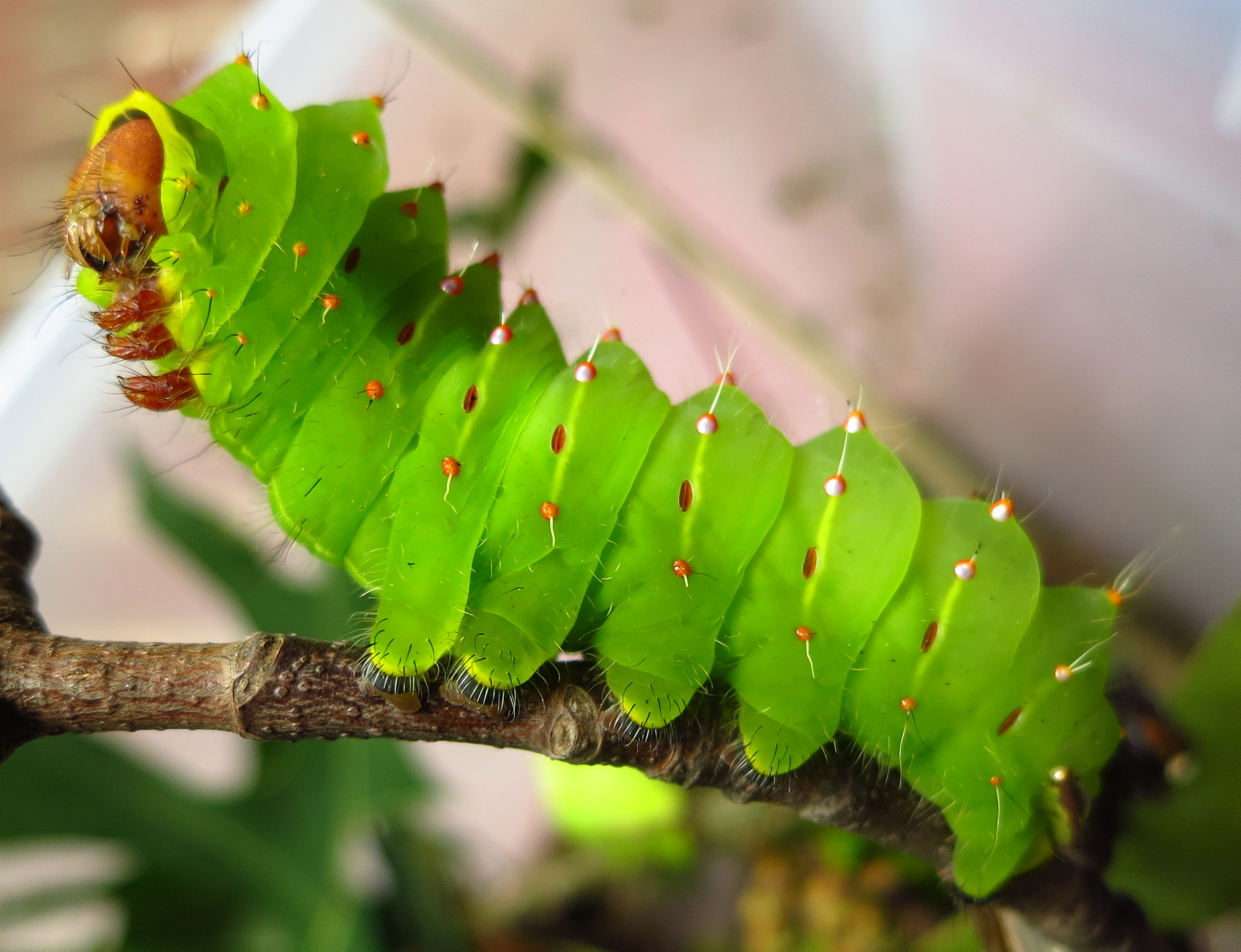 Antheraea polyphemus caterpillar.